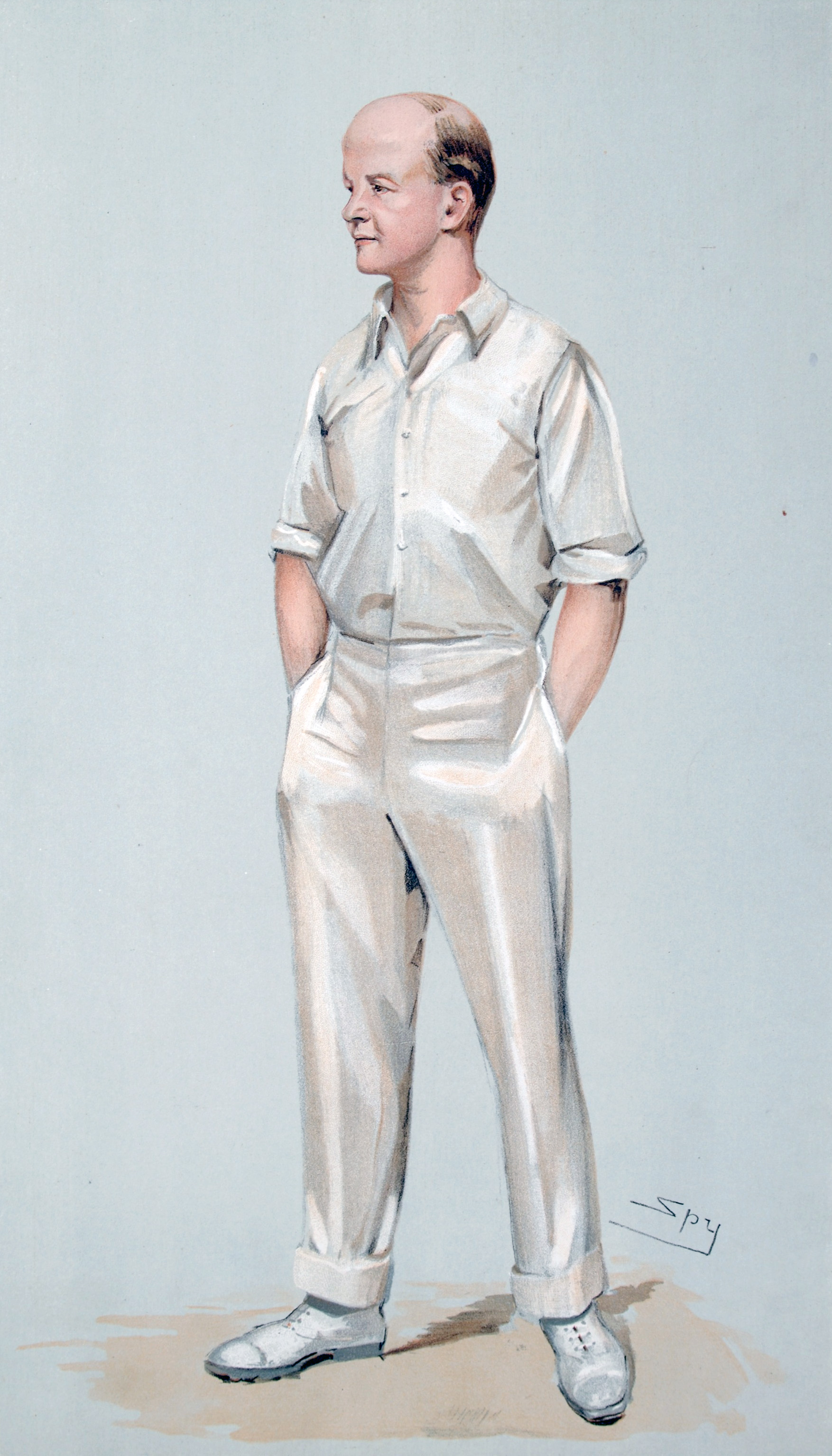 Caricature of Pelham Warner (1873-1963), England cricket captain